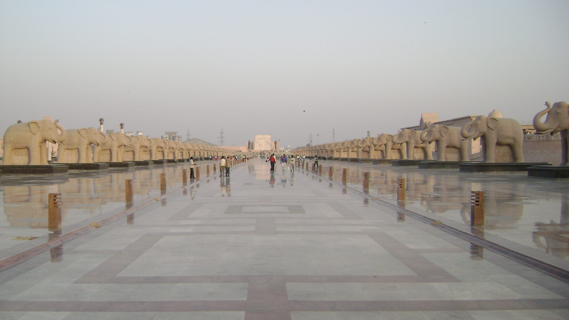 Pratibimb Sthal, Main gate entrance sector at Dr. B. R. Ambedkar Samajik Parivarthan Sthal(Ambedkar Memorial)